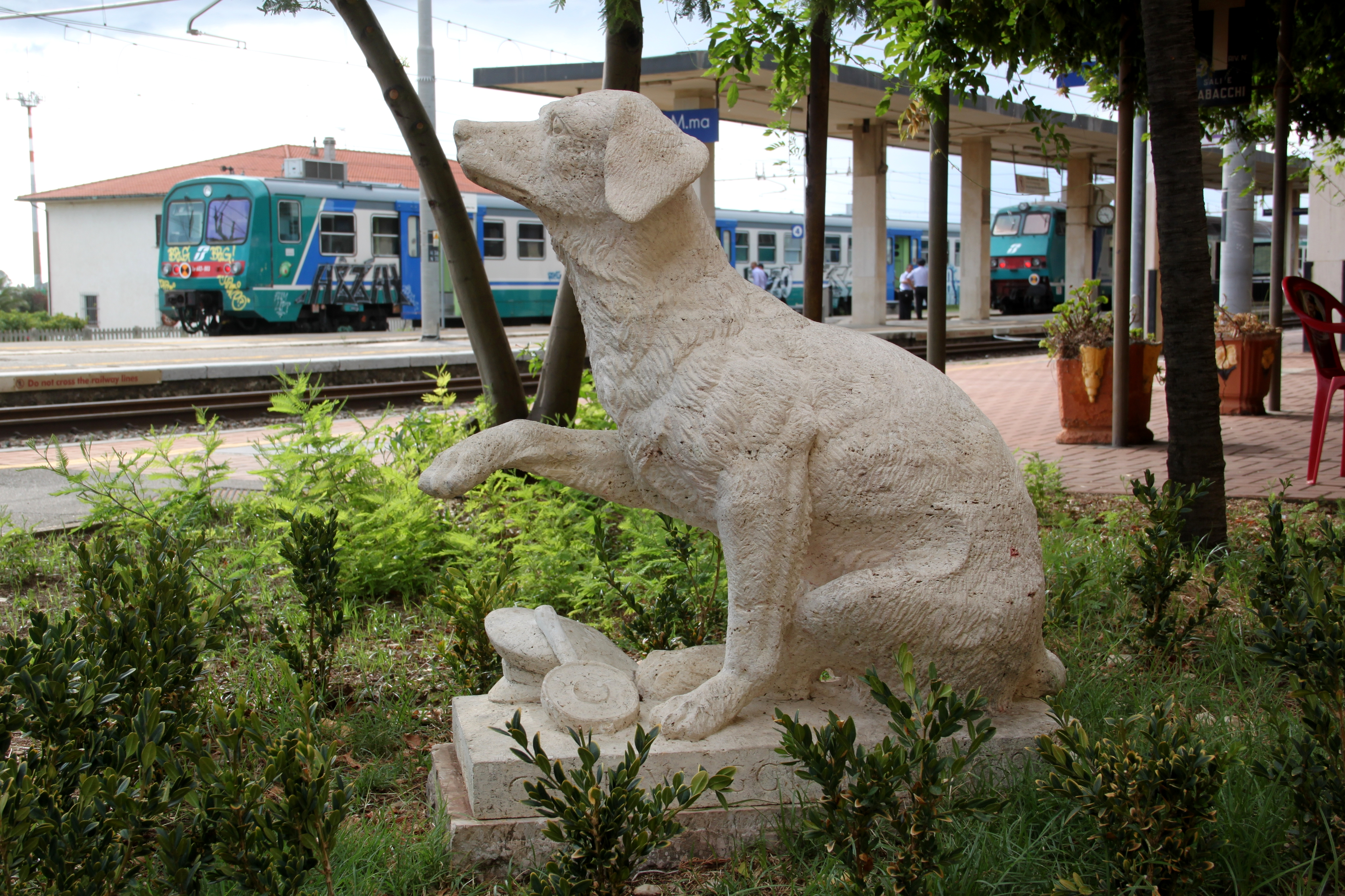 Campiglia Marittima train station: Statue for Lampo, „the travelling dog“ (cf. Elvio Barlettani: Lampo, il cane viaggiatore, 1962).